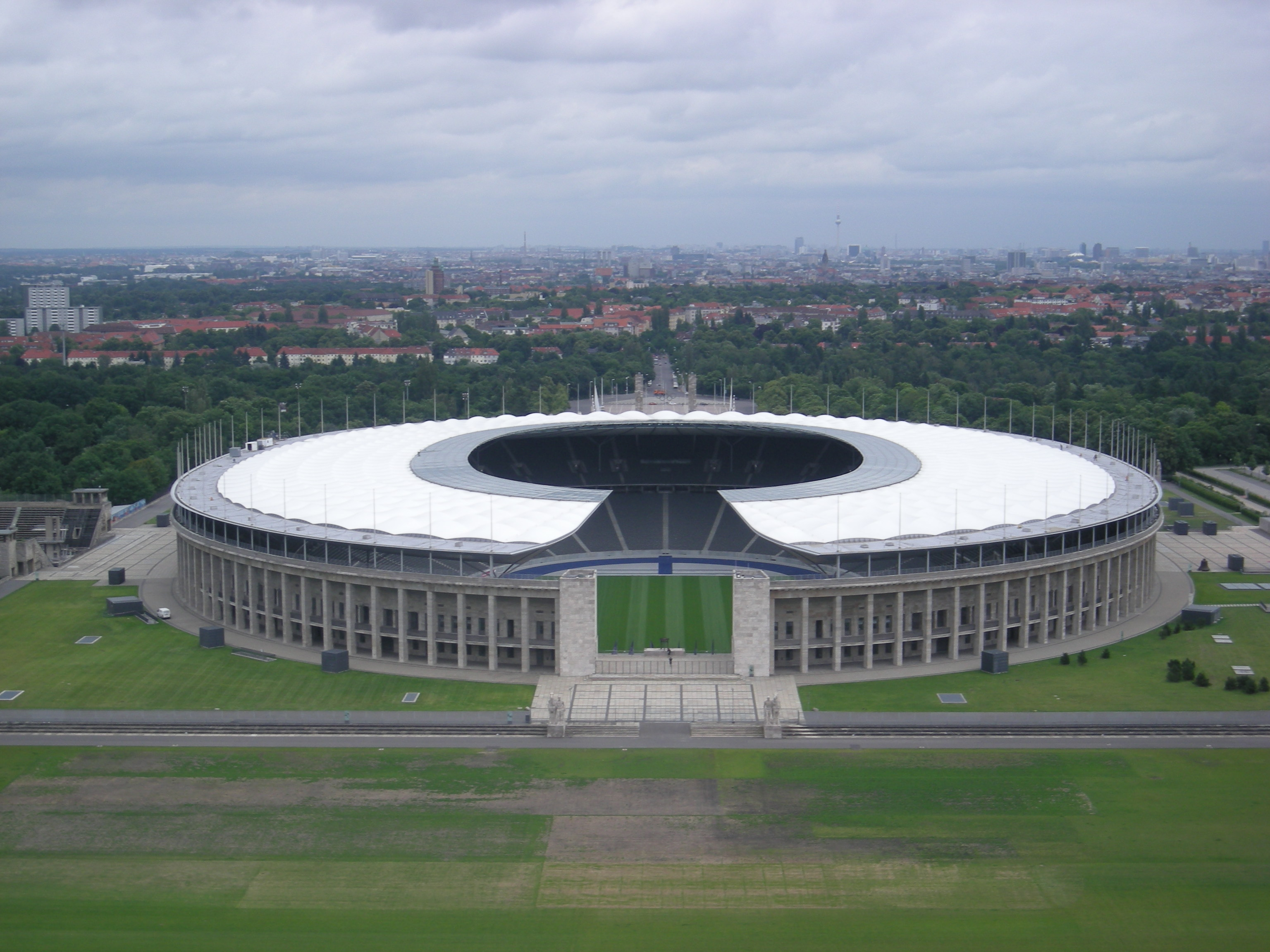 View of the stadium from the Belltower at the Olympiastadion in Berlin (Germany).